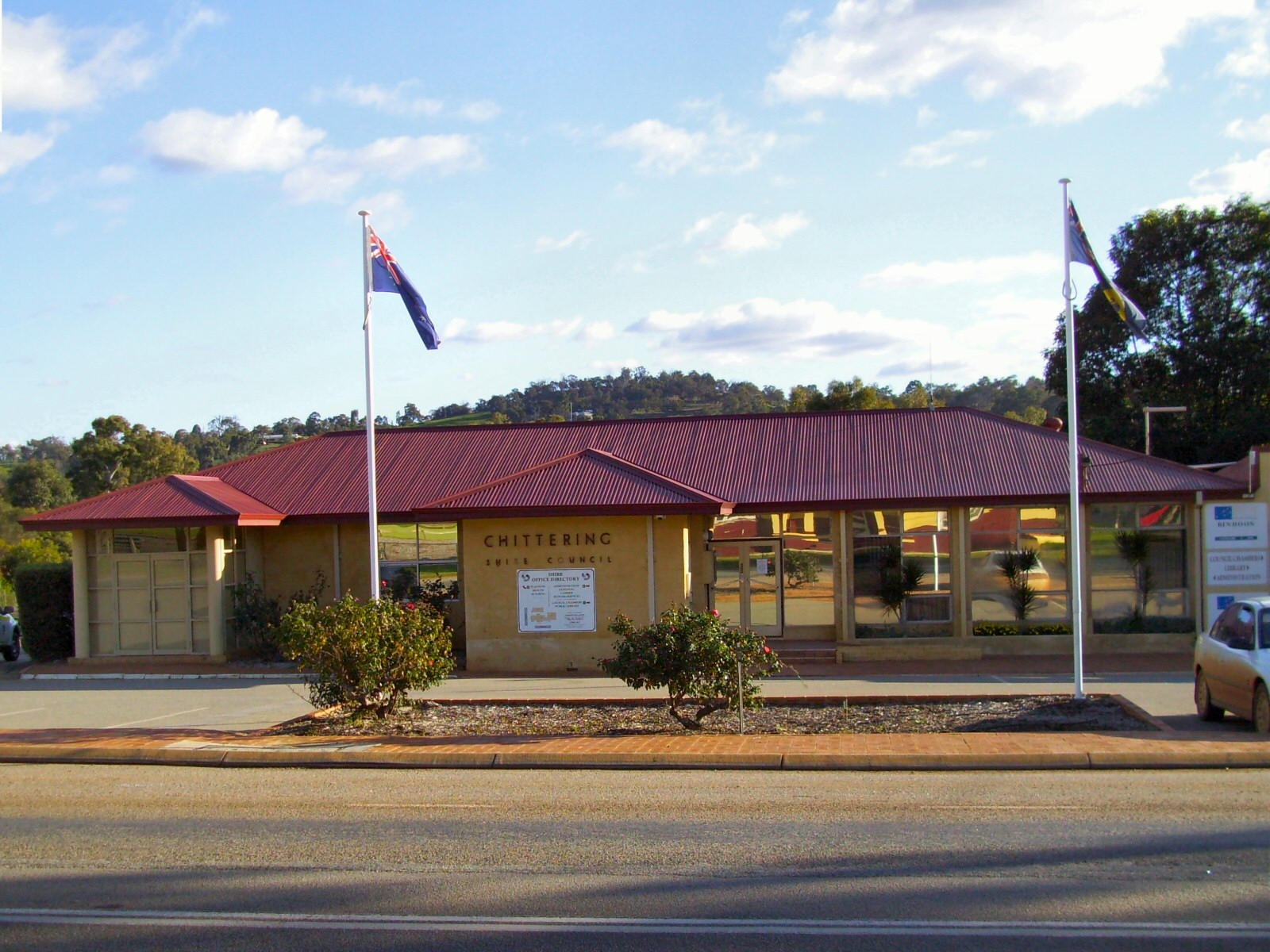 Main building of the Shire of Chittering - Great Northern Highway, Bindoon, Western Australia